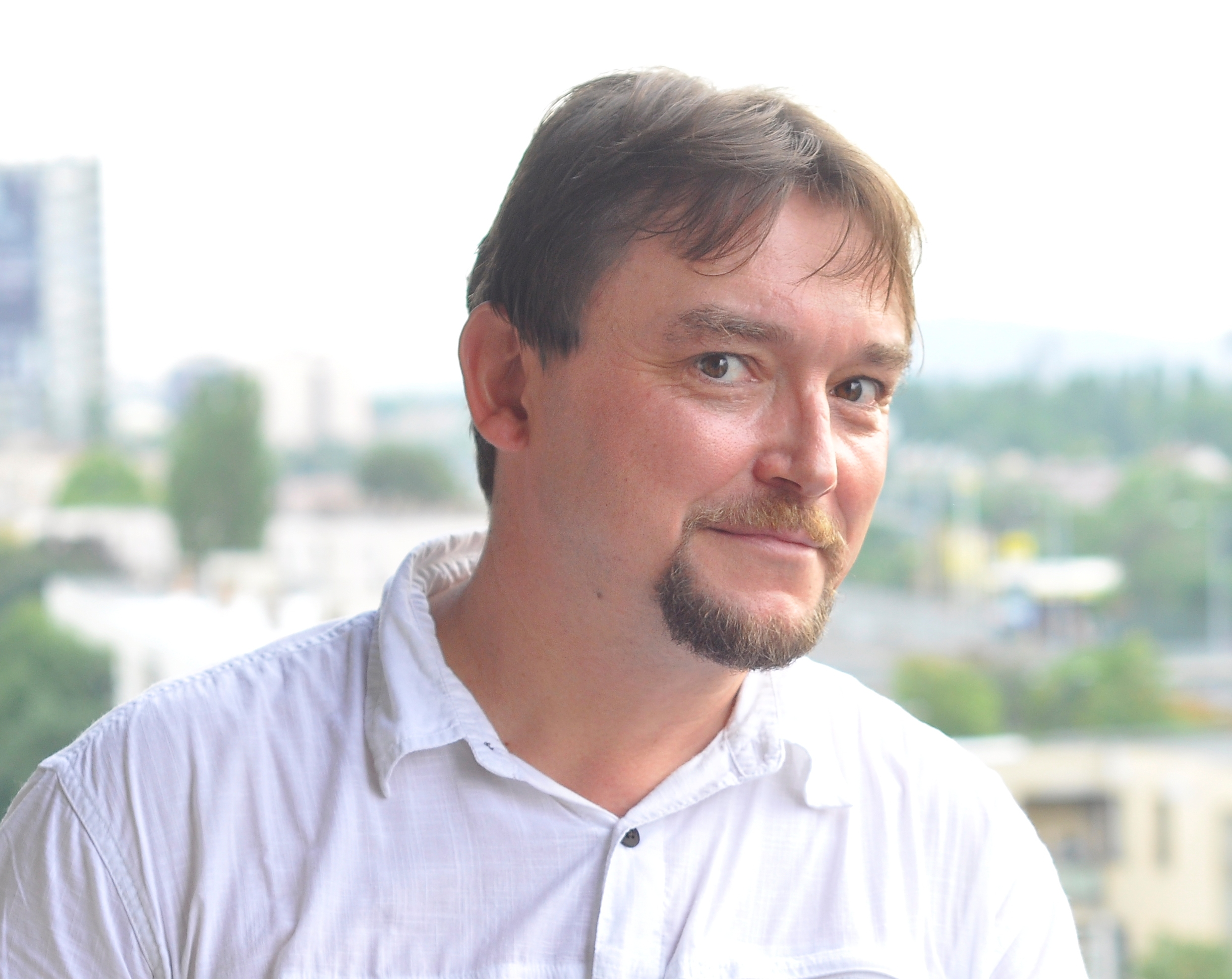 Tamás Paulinyi